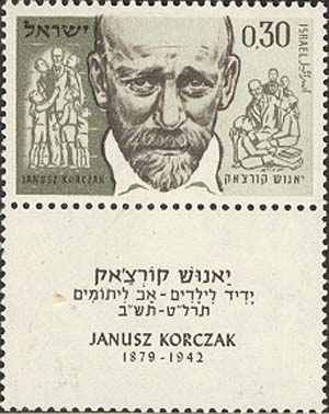 Janusz Korczak commemorative stamp, issued by Israel in 1962